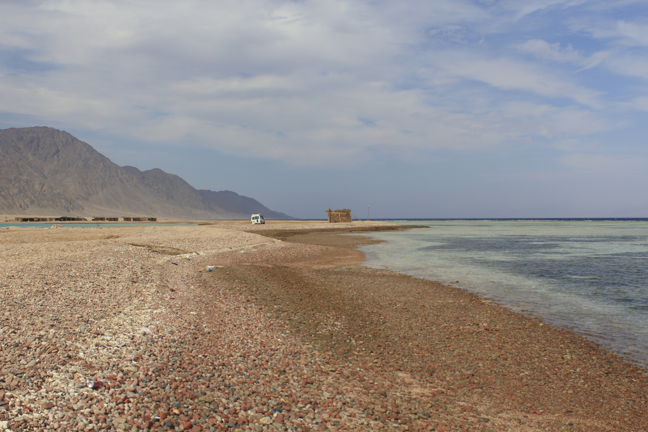 Nowebaa Beach of Egypt